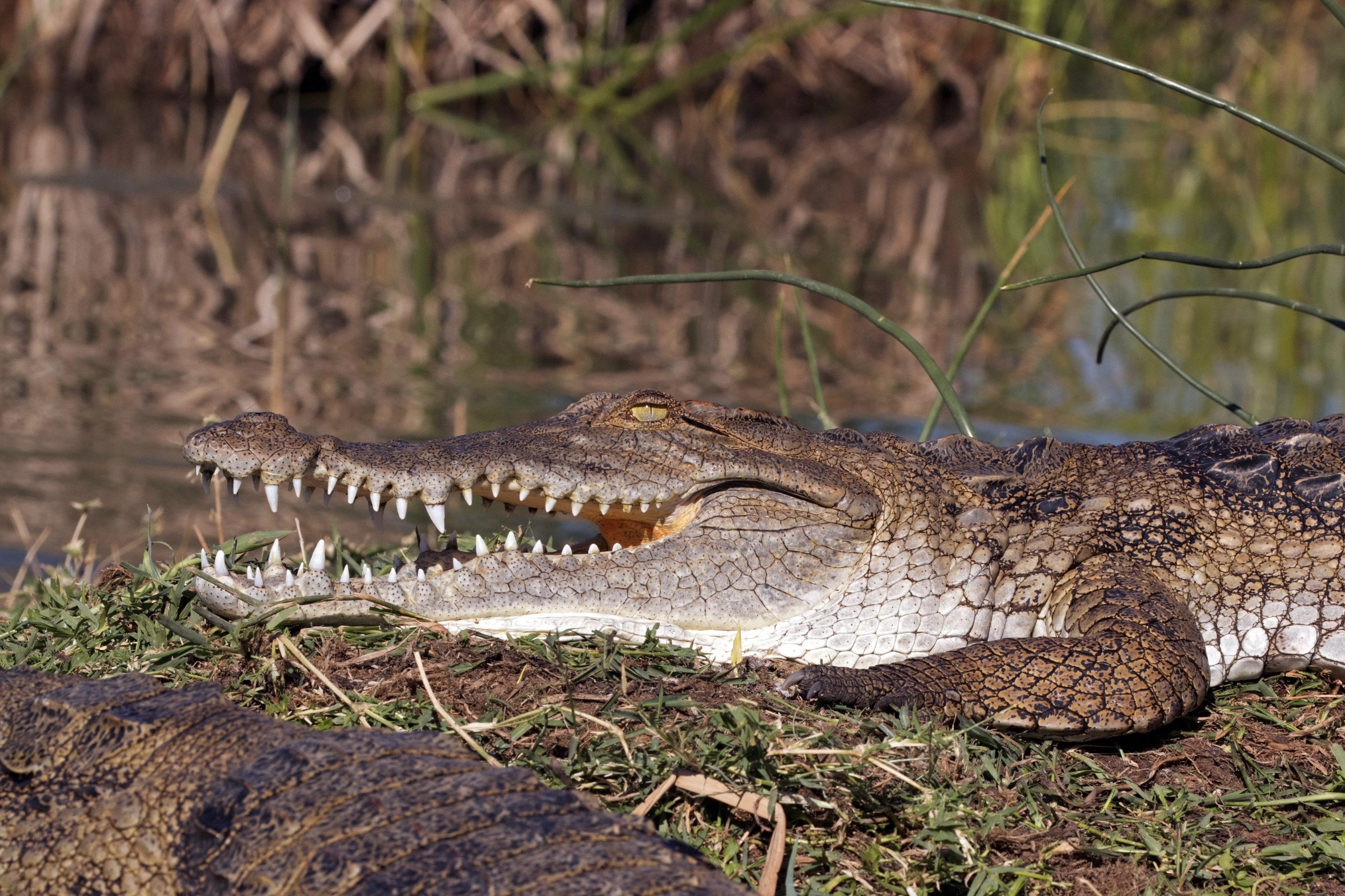 Kenyan crocodile (Crocodylus niloticus pauciscutatus), Lake Baringo, Kenya